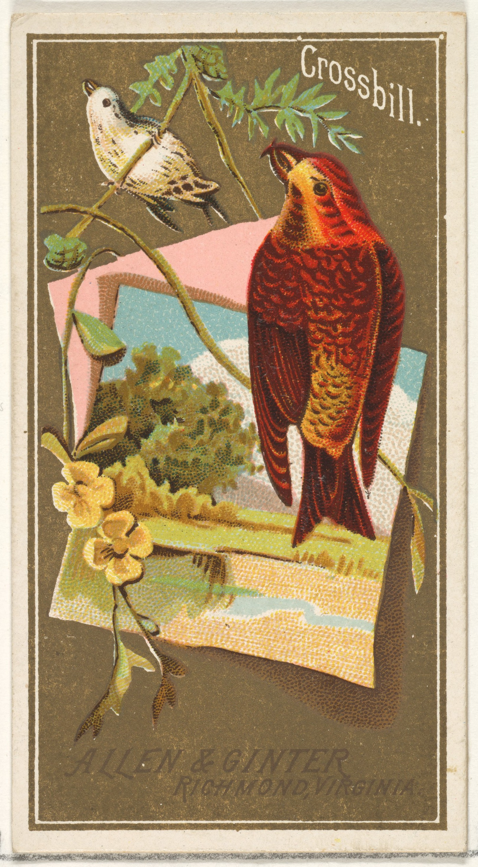 Print; Prints